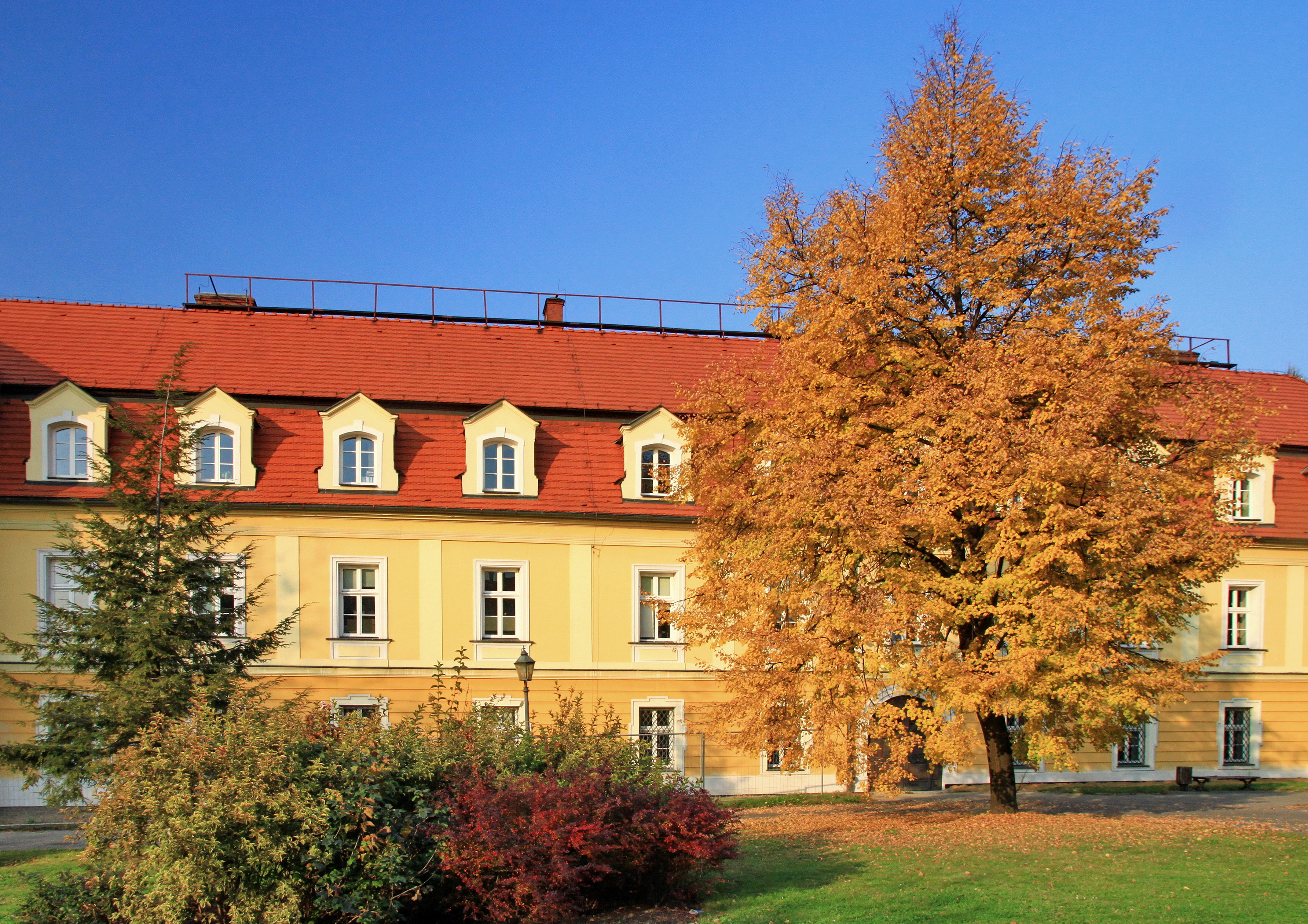 Rybnik, former castle, palace, now district court, build in 17th century, 1776-78